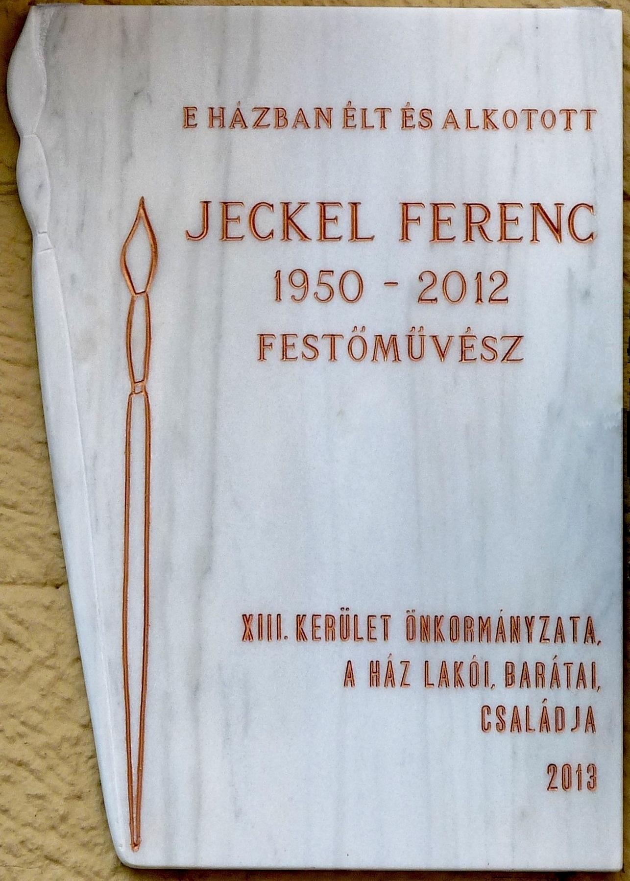 Commemorative plaque to Mr. Ferenc Jeckel (1950-2012) Hungarian painter, affixed on the wall of his former home on October 18, 2013. (Budapest, District XIII, Kresz Géza Street Nr 8)